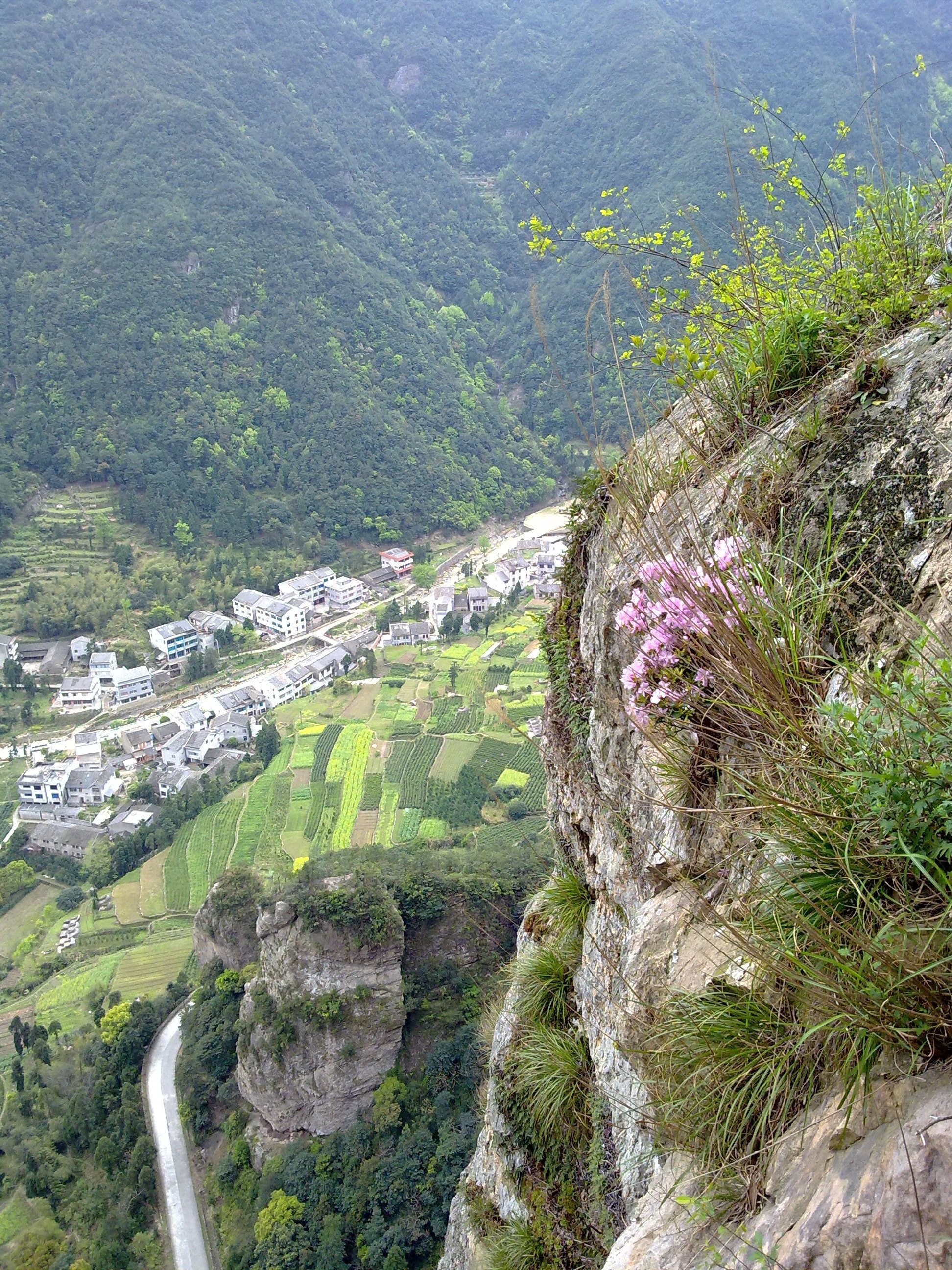 A view from Lingyan Rock towards the Lower Lingyan village, Yandangshan, Zhejiang, PR China. Tea plantations next to the village.